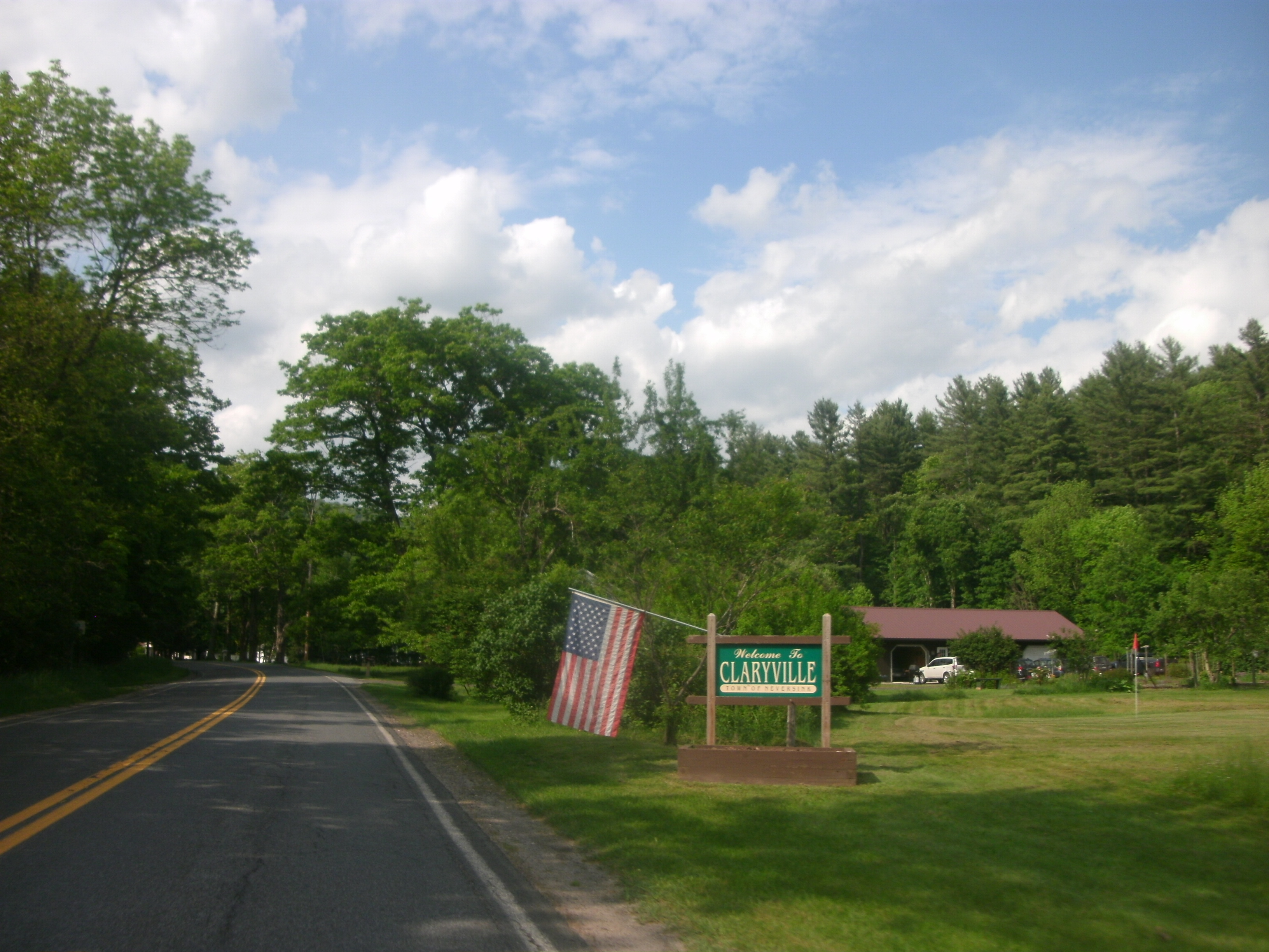 Entering the hamlet of Claryville along Sullivan County Route 19 northbound.